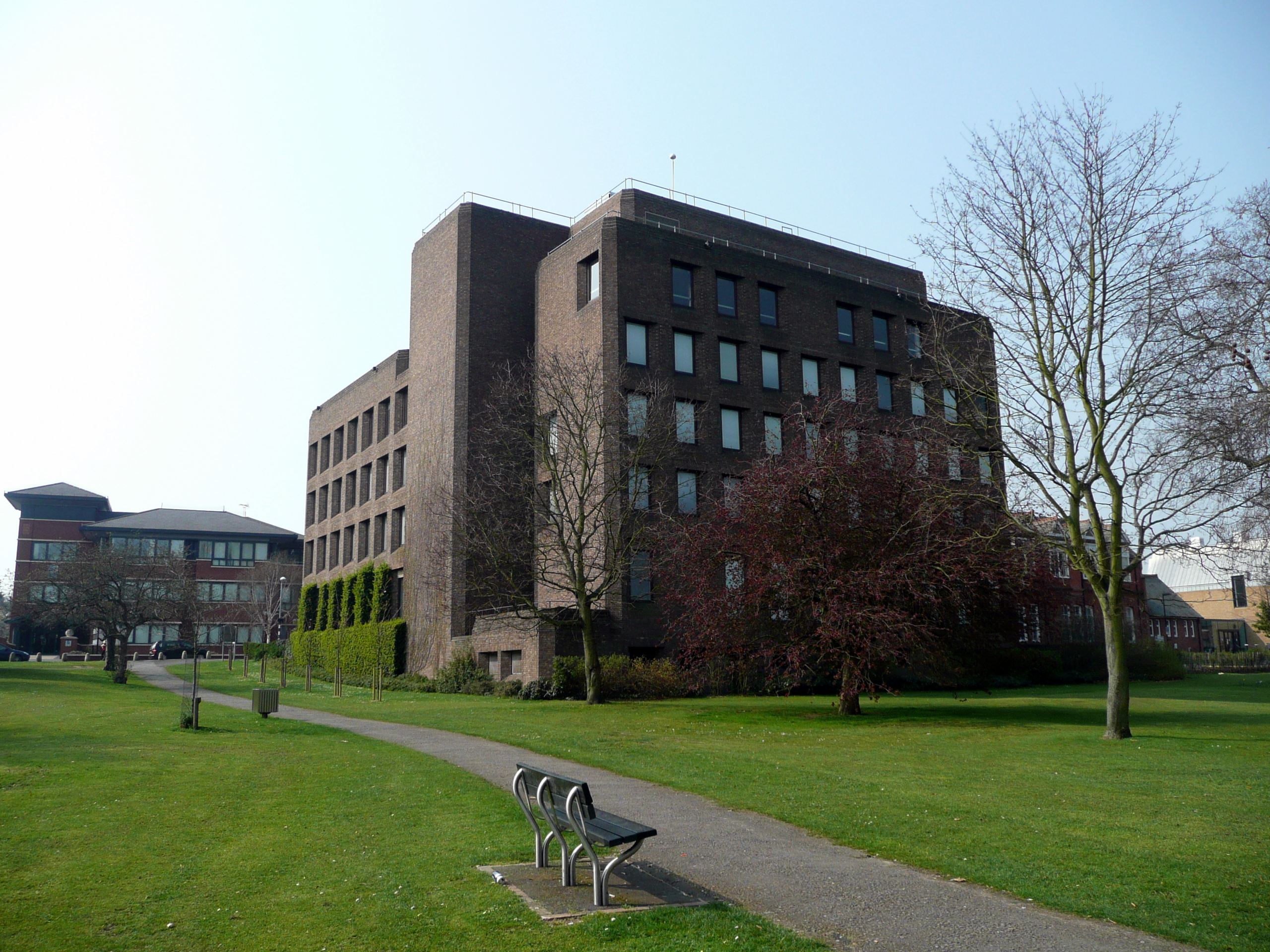 Headquarters of the Commonwealth War Graves Commission, Marlow Road, Maidenhead. The Commission is responsible for maintaining British and Commonwealth war graves across the world. The building was designed by G L M Rainbird and completed in 1972.